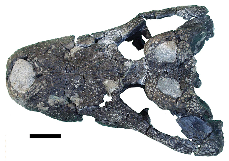 Allodaposuchus precedens (Eusuchia, ?Hylaeochampsidae), skull (PSMUBB V 438) in dorsal view (Sebeş = Şard Formation, Oarda de Jos, southwestern Transylvanian Basin; photo by Vlad Codrea/Massimo Delfino)